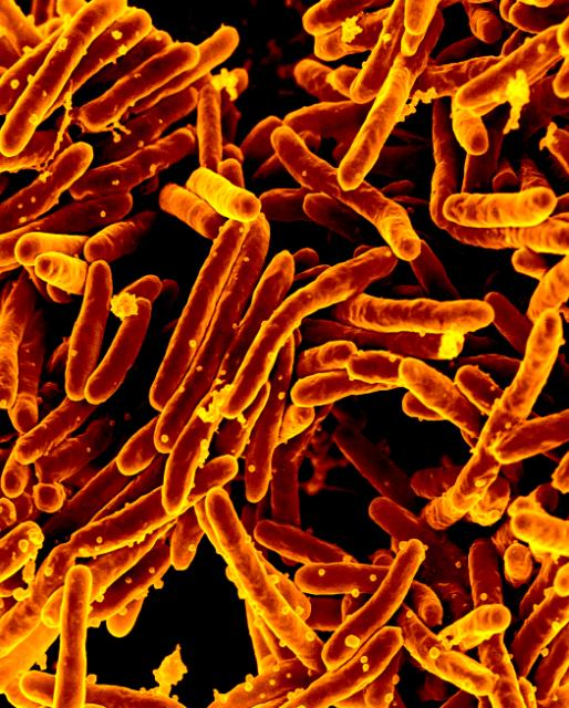 Mycobacterium tuberculosis Bacteria, the Cause of TB Scanning electron micrograph of Mycobacterium tuberculosis bacteria, which cause TB. Credit: NIAID